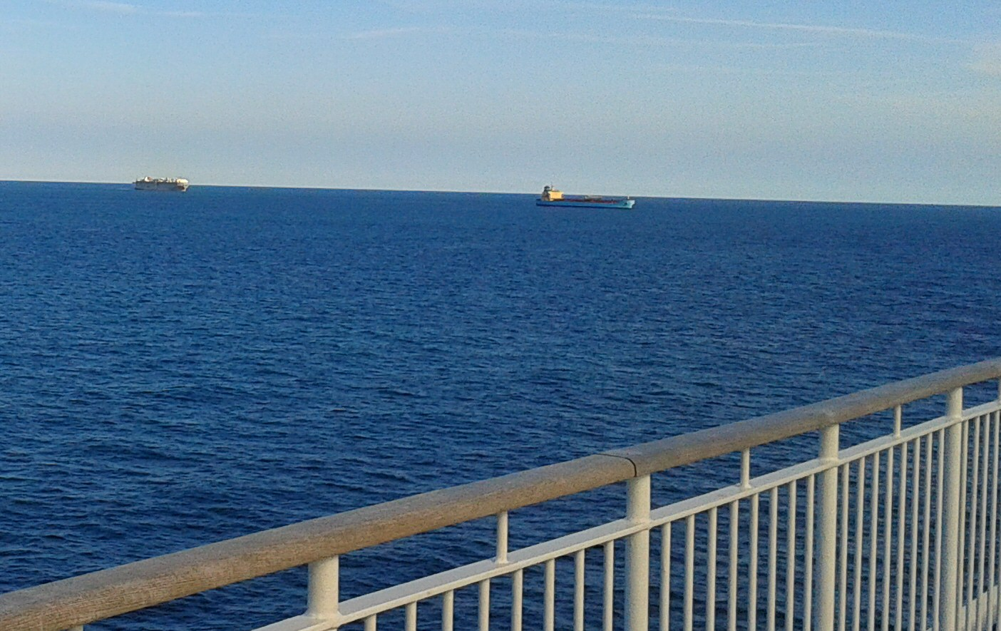 Distant ships seen from a ship, to illustrate the criterion for judging risk of collision: constant bearing, decreasing range